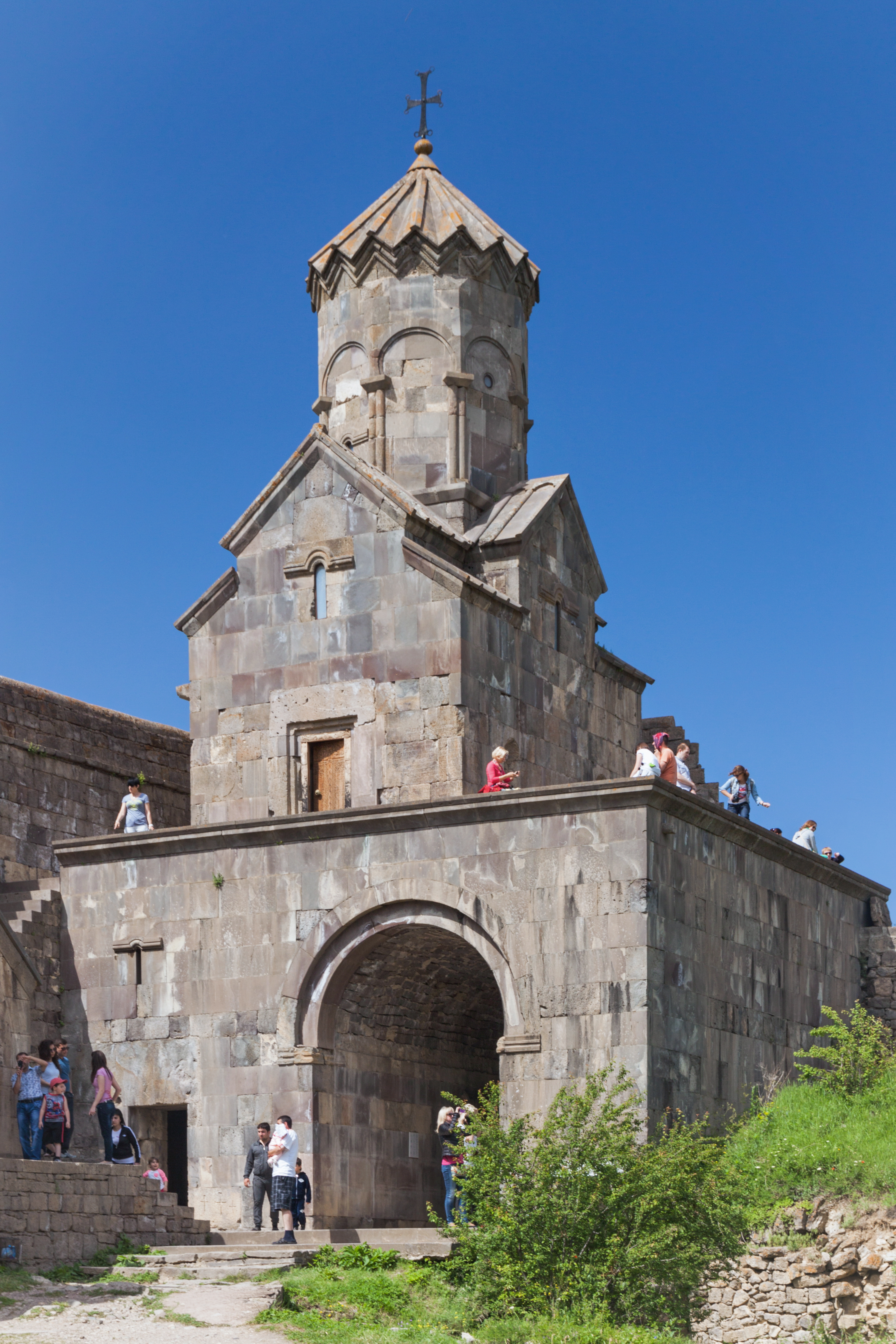 St. Mary’s Church (Surb Astvatsatsin). Tatev monastery. Tatev, Syunik Province, Armenia.